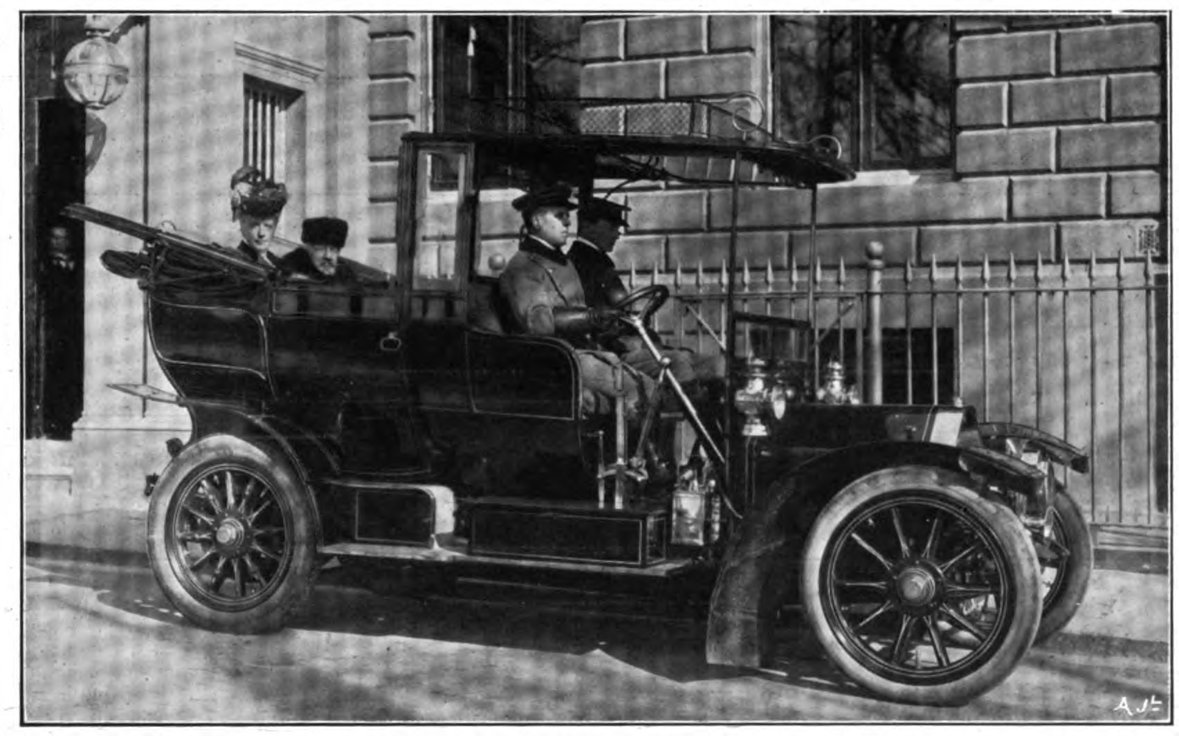 1905 Brotherhood 20-25 landauletteSir Max and Lady Wachter in their 20-25 hp Brotherhood landaulette which they have now had in continuous service since last summer. To drive this car Sir Max Wachter employs his head coachman who found no difficulty in quickly acquiring the necessary knowledge for controlling the mechanism which in the case of the Brotherhood is exceptionally simple though unusual in its operation.